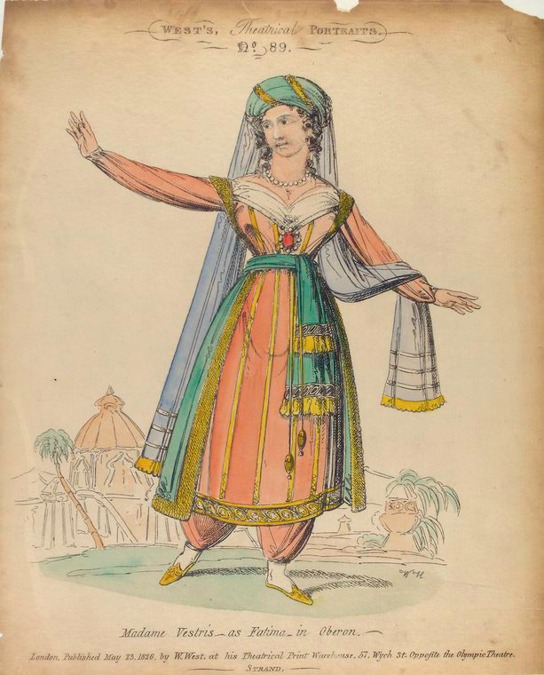 Lucia Elisabeth Vestris (née Bartolozzi) as Fatima in Carl Maria von Weber's opera Oberon